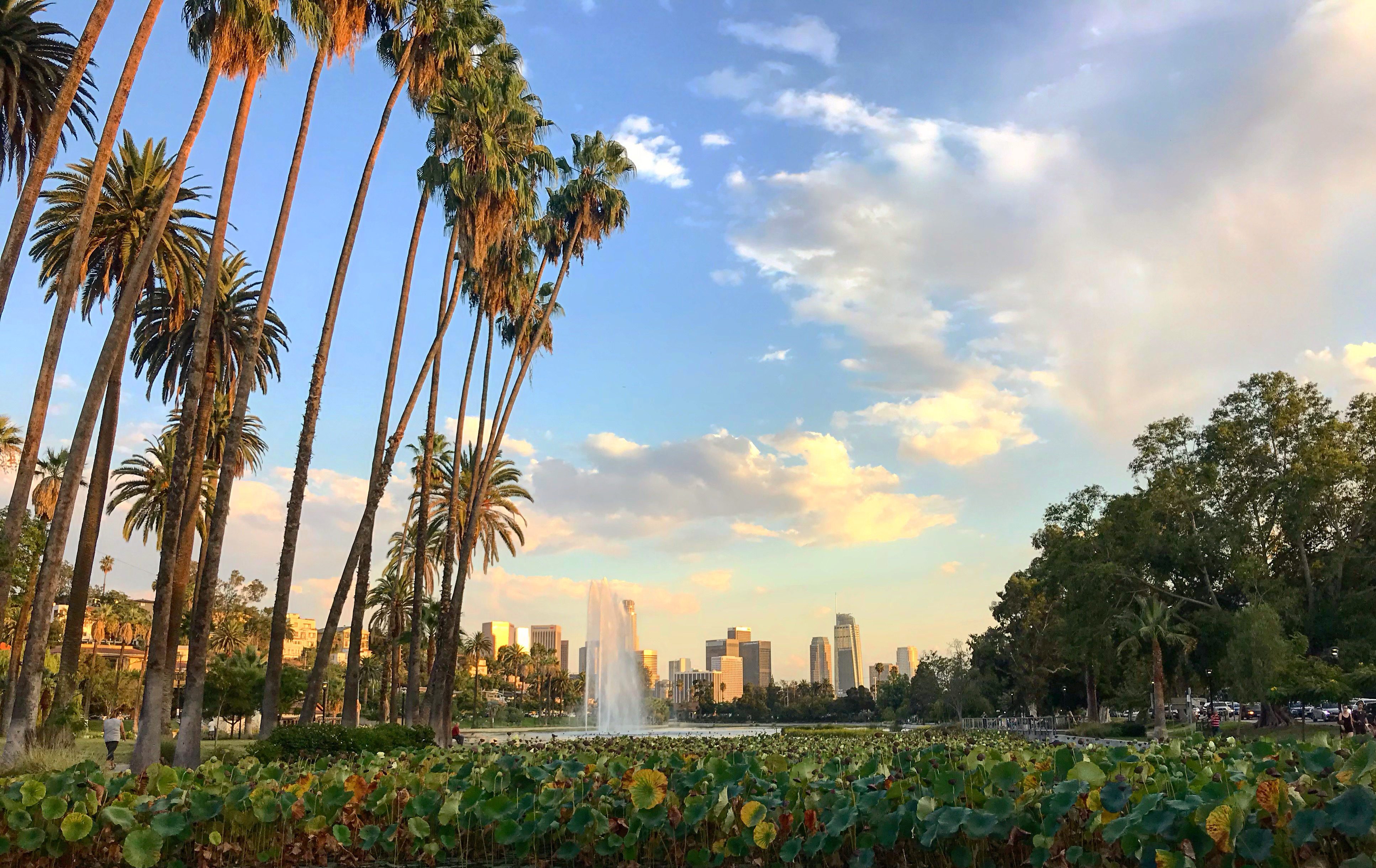 Echo park lake and fountain on a partly cloudy day in Echo Park, Los Angeles, CA with lotus flowers in the foreground and the Downtown Los Angeles skyline in the background